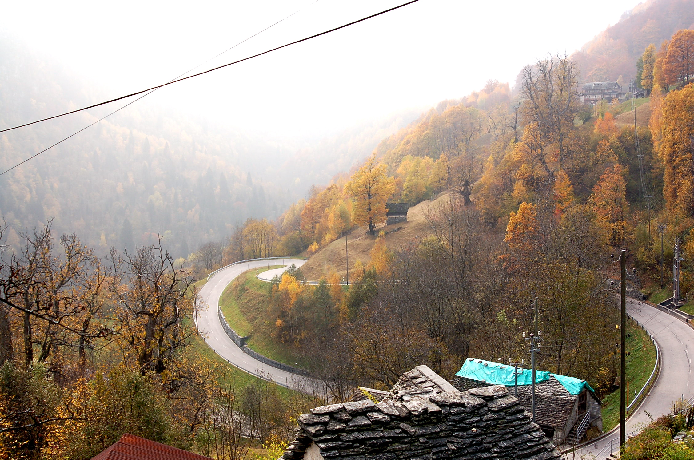 The road to drive to Cerentino was windy to say the least